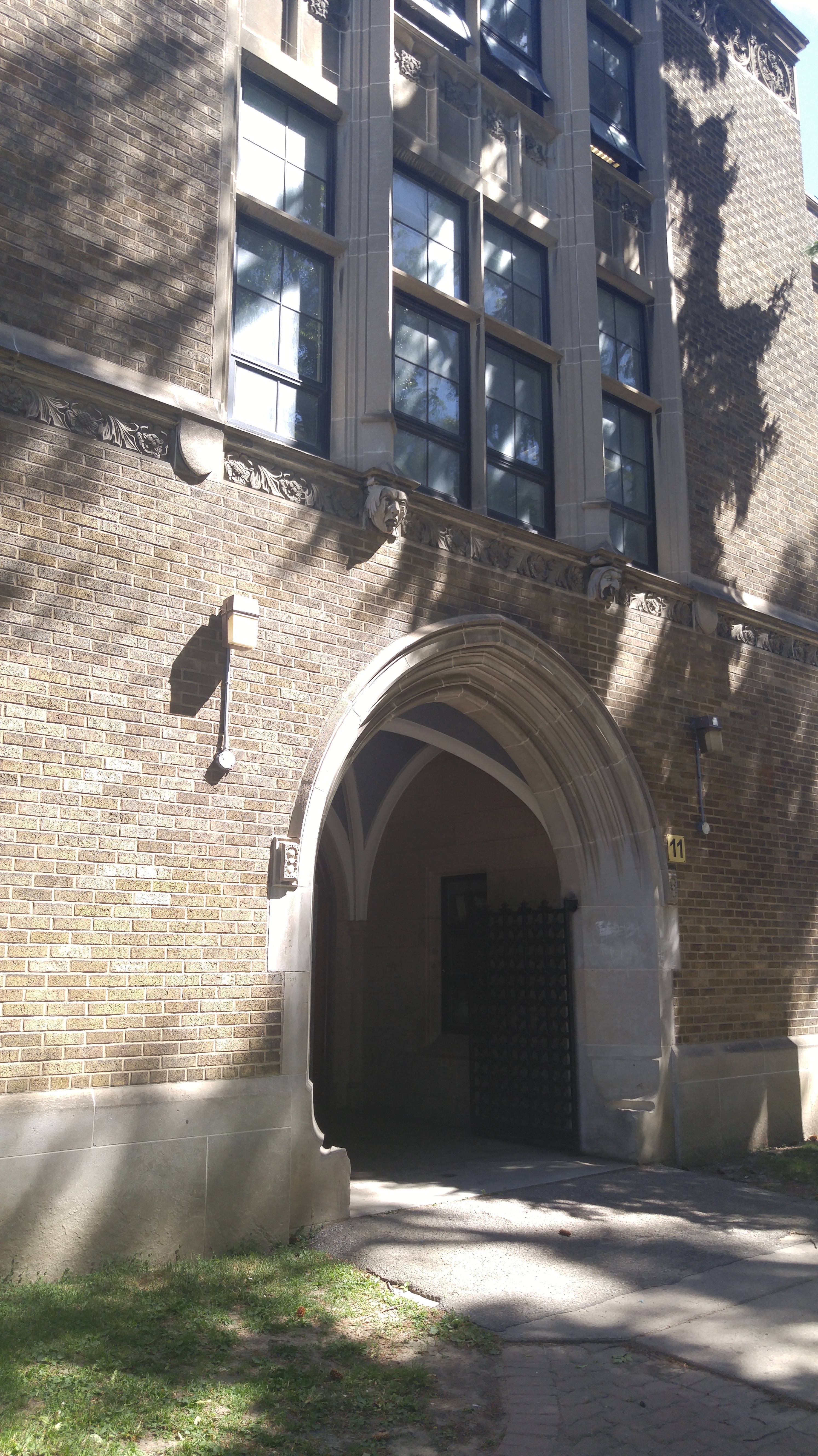 An arched entrance at Northern Secondary